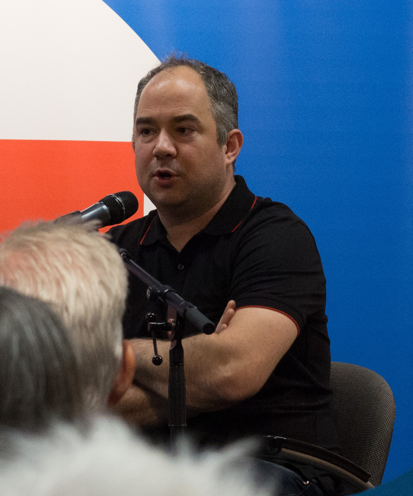 Arjen van Veelen at "Marcel Möring in gesprek" talking about his novel "Aantekeningen over het verplaatsen van obelisken"